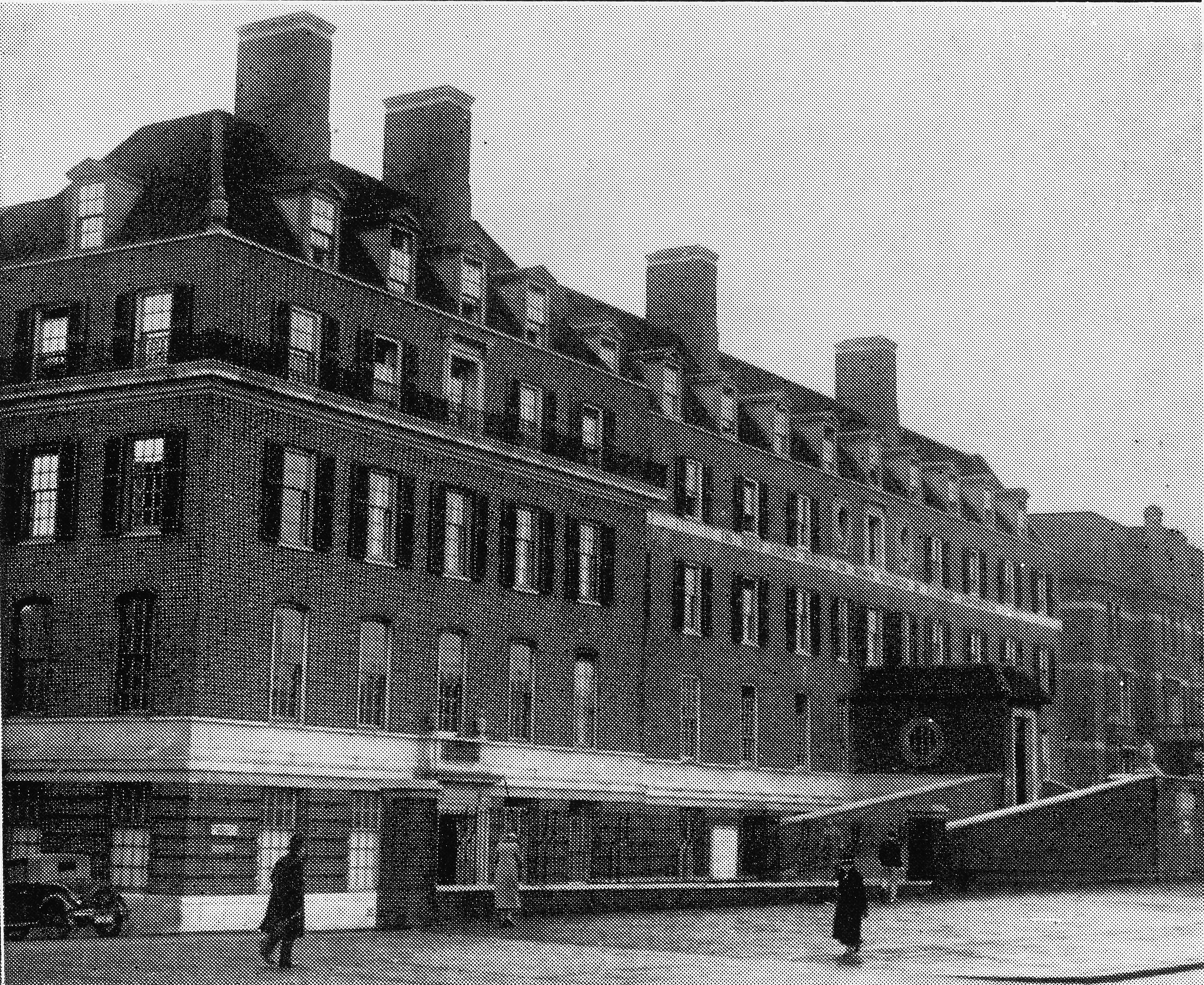 Printed reproduction showing The South London Hospital for Women, Clapham Common South Side. (The hospital was founded in 1912 and opened by Queen Mary on 4 July 1916. Staffed entirely by women, the hospital was enlarged in the 1930s and closed down in 1984.) Archives & Manuscripts Keywords: Gynaecology; Architecture as Topic; Architecture; Women's Health; Hospitals; Women